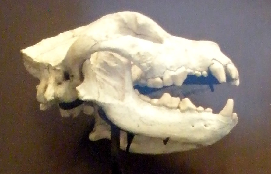 Skull of Borophagus cyonoides (syn. Osteoborus cyonoides), a fossil canid